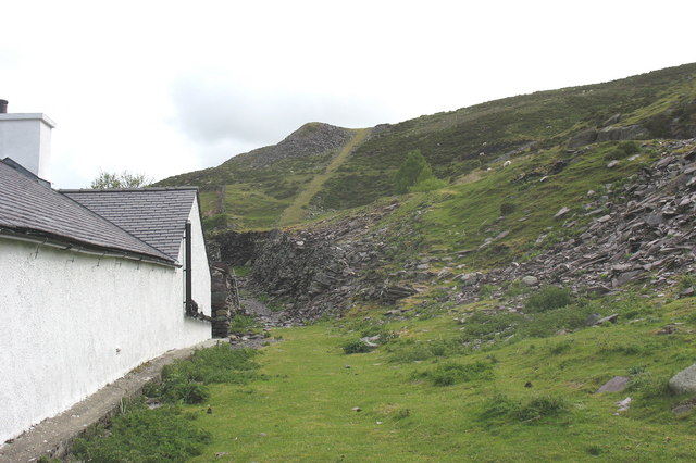 Old incline and tramway formations behind Tyn-y-mynydd These formations belonged to the Moel Faban Quarry, which was partly worked underground. For a time in the early 1900s it was worked as part of a workers' cooperative with Tan-y-bwlch Quarry SH6268. The quarry closed before 1914.